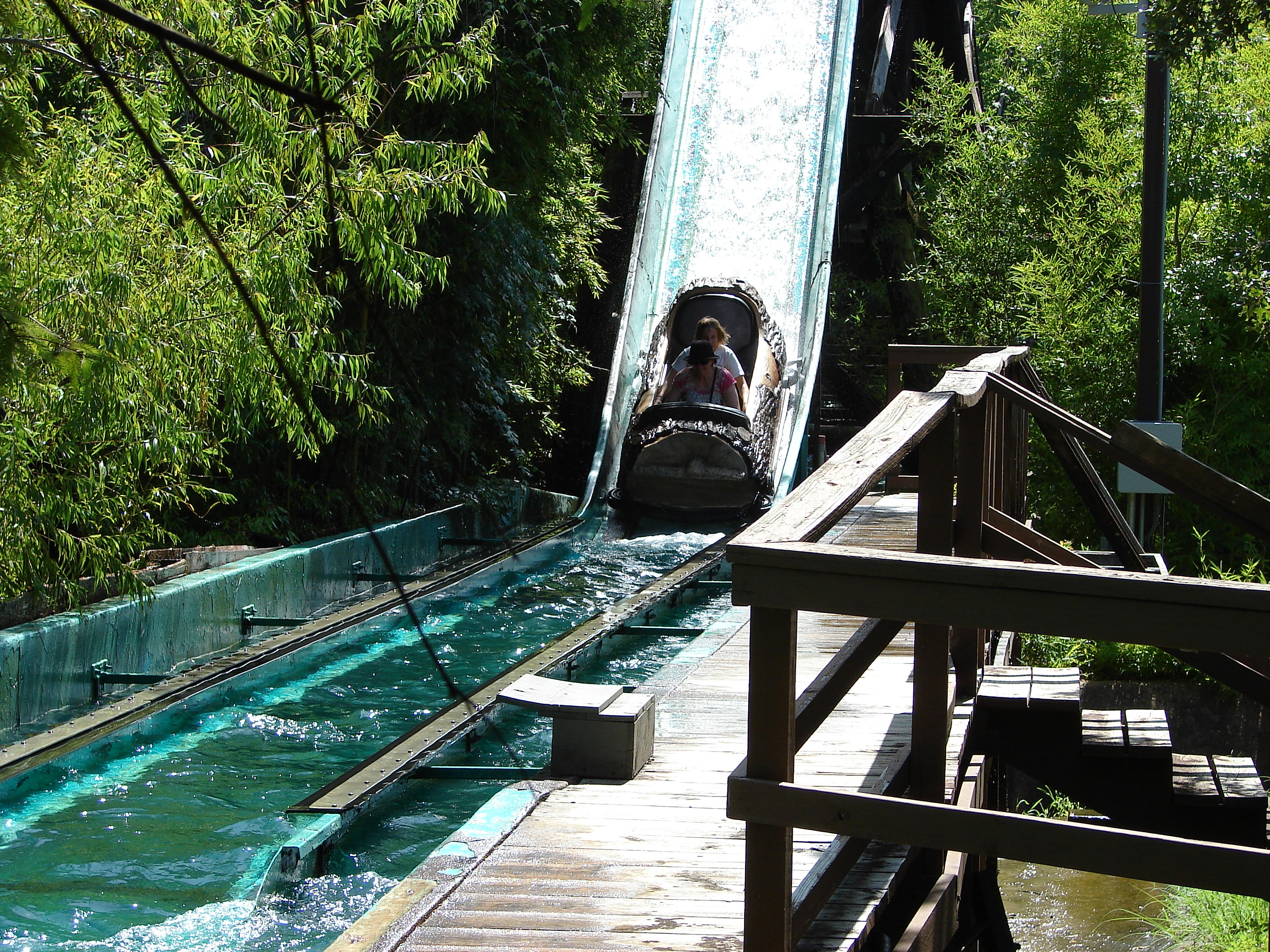 El Aserradero (the Saw Mill) log flume ride at Six Flags Over Texas.